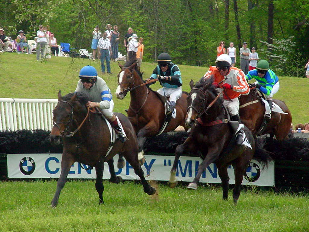 One of my first attempts at trying to capture action. It was taken about two years ago with a borrowed camera.